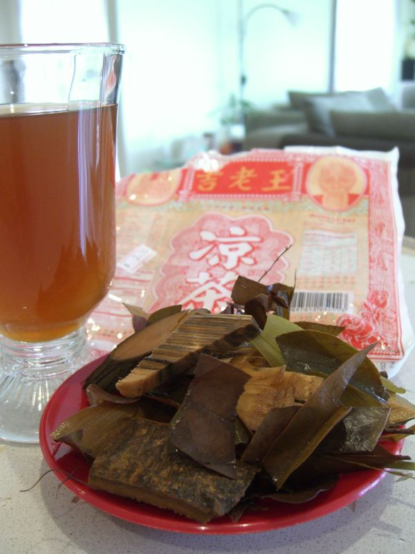 王老吉 Wong Lo Kat Herbal Tea is a famously bitter Chinese herbal tea. According to the packet, the contents should be simmered with five bowls of water for 2 hours. I think the contents looks like garden mulch! :P